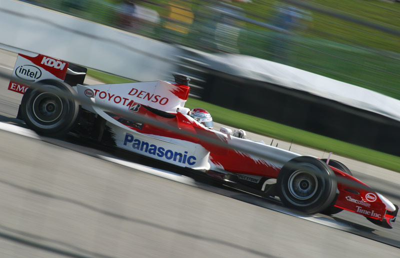 Jarno Trulli driving for Toyota F1 at the 2006 United States Grand Prix.